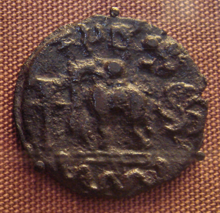 Kausambi cast copper coin 1st century BCE inscribed "Kosabi"